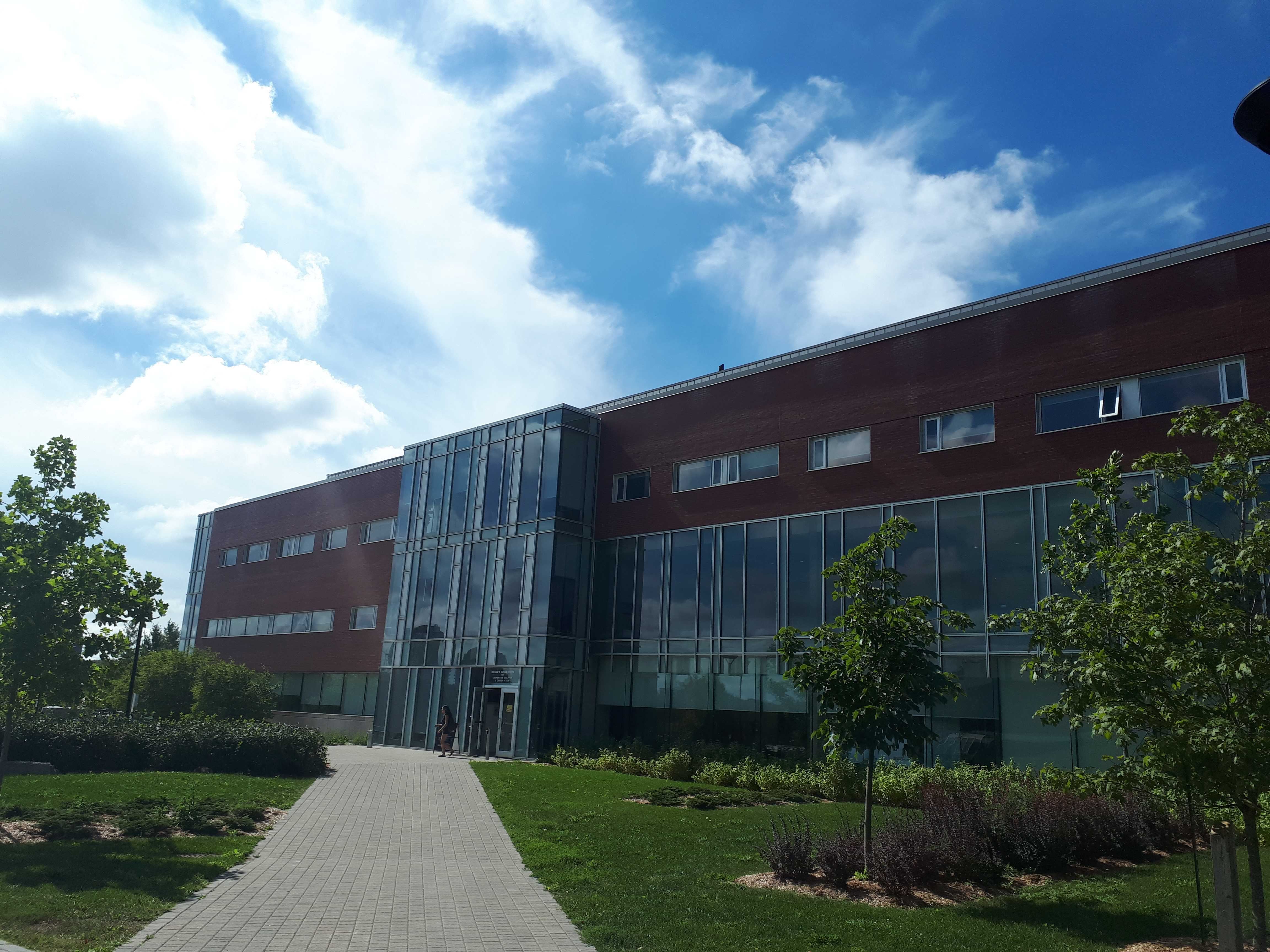 Tatham Centre at the University of Waterloo